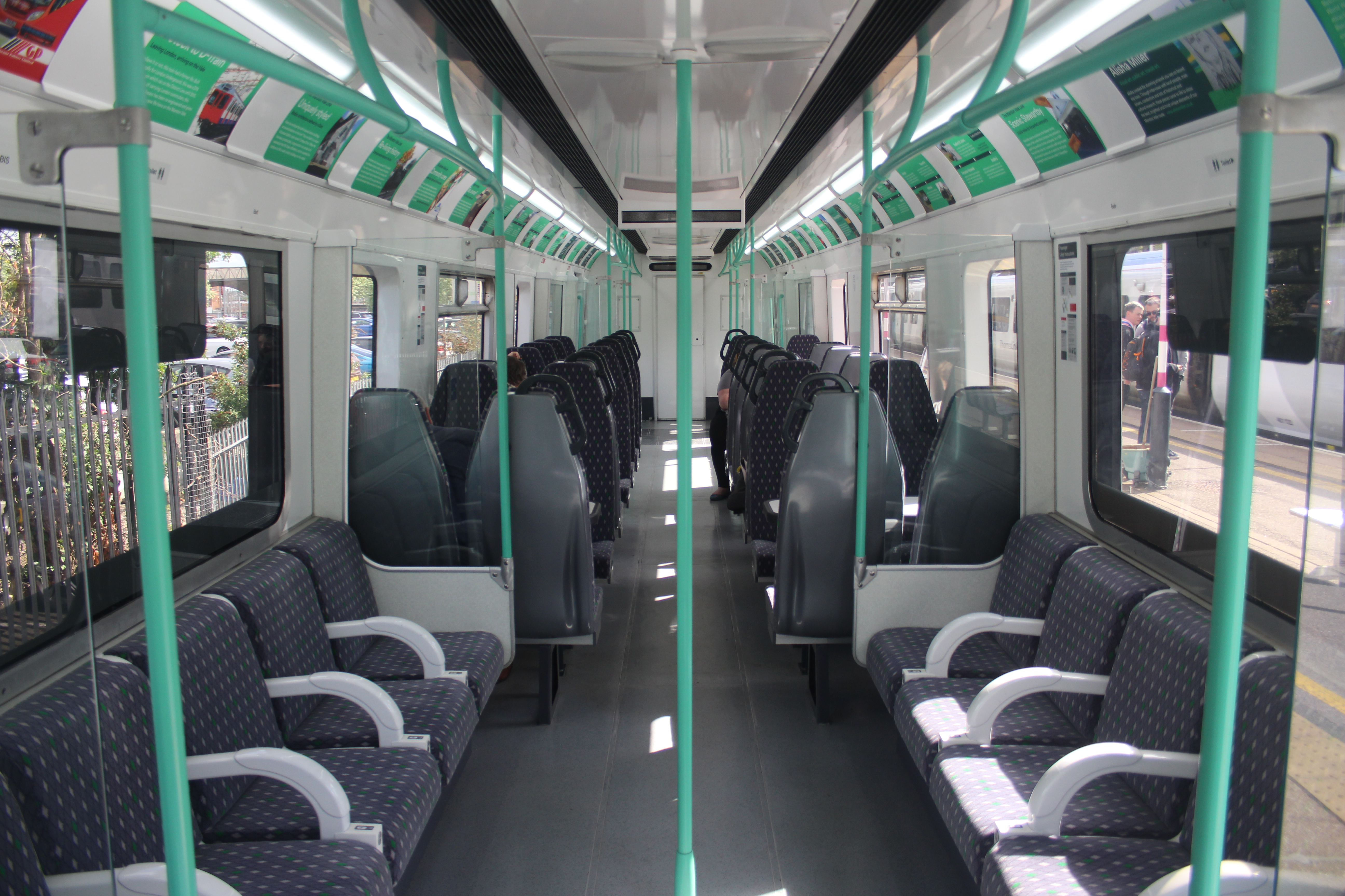 The interior of West Midlands Trains unit number 230004.